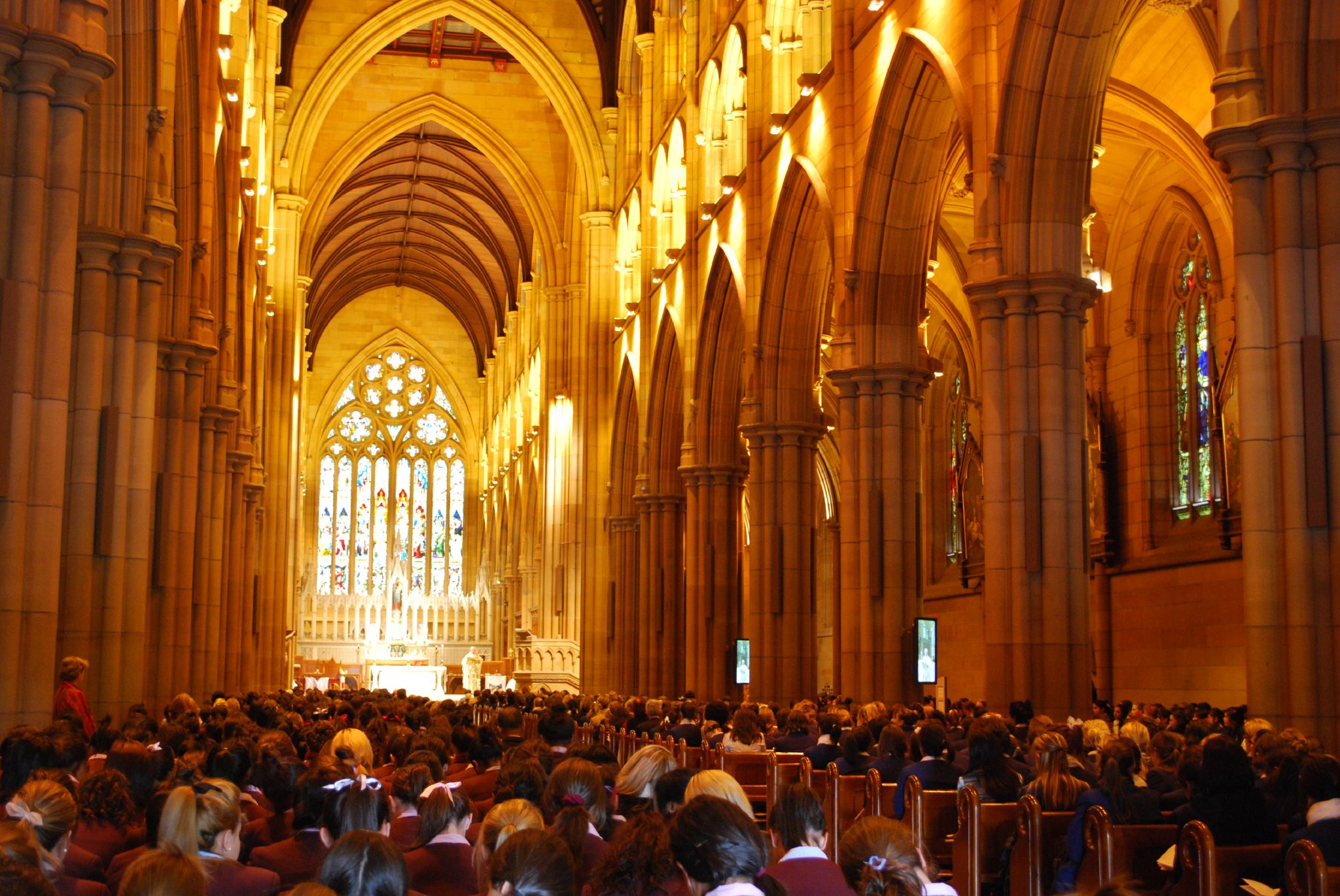 St Mary's Cathedral, Sydney